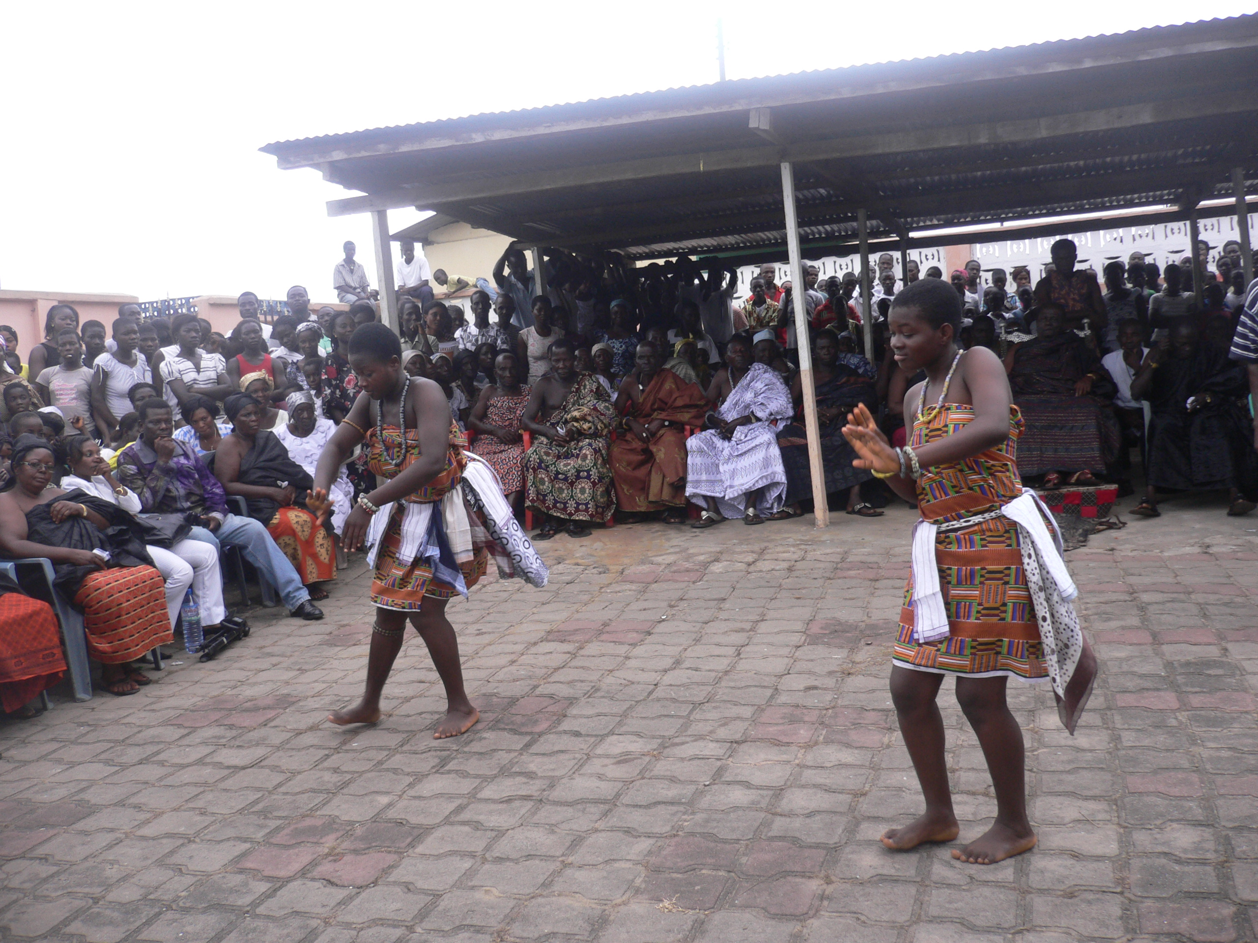 Dance performance in Ghana.